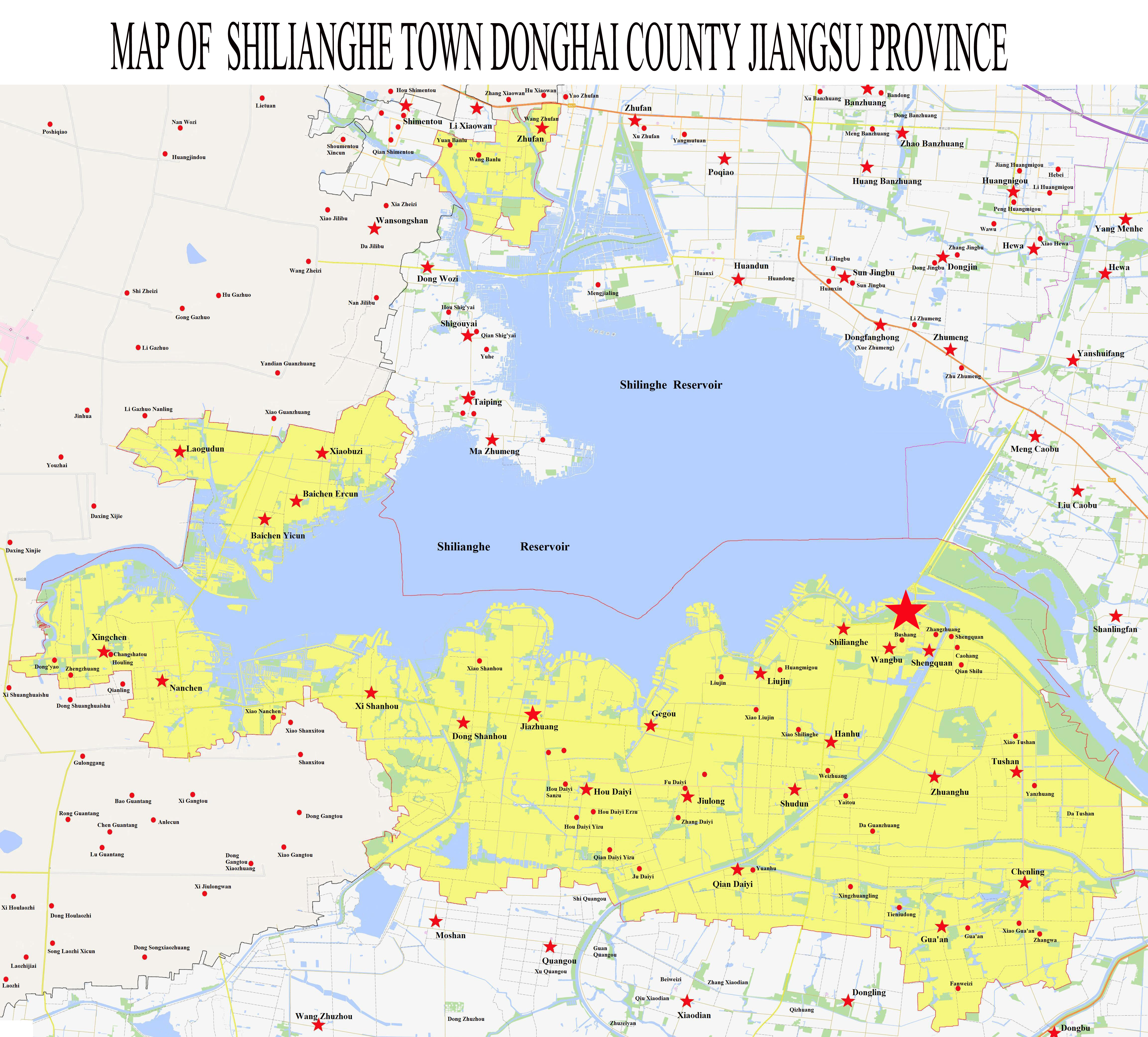 Map of Shilinghe Town in English